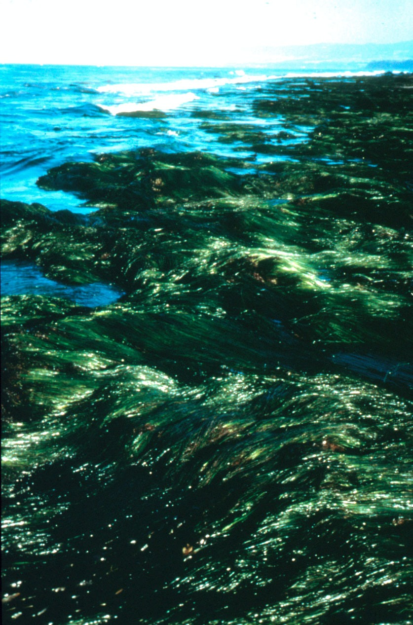 Surfgrass (Phyllospadix sp.), a marine angiosperm.Surfgrass is a critical member of the intertidal community providing a nursery habitat for many species of fish and invertebrates. Survival of the seedlings requires algae to enable root establishment. Once disturbed, it is difficult to regrow.